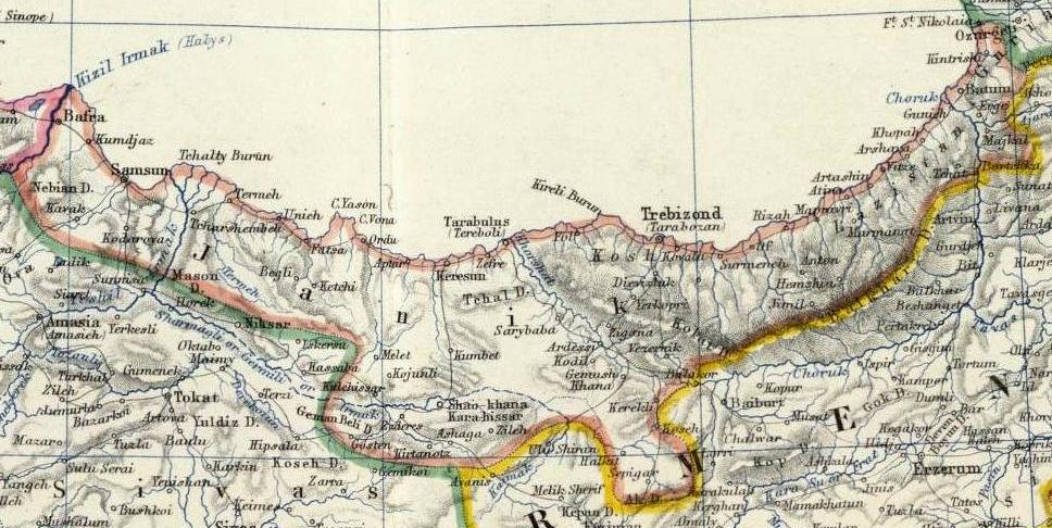 Turkey in Asia, Asia Minor, and Transcaucasia. By Keith Johnston, F.R.S.E. Engraved & printed by W. & A.K. Johnston, Edinburgh. William Blackwood & Sons, Edinburgh & London, (1861)